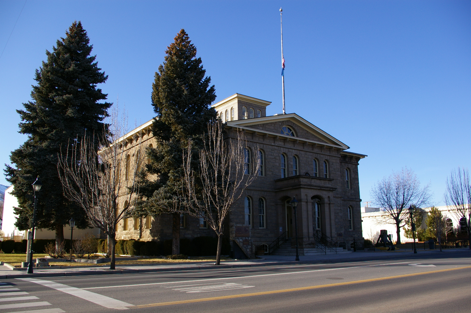 Nevada State Museum. This building was originally built to serve as the U.S. Mint in Carson City